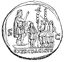 738 woodcuts illustrating the work A Dictionary of Roman Coins, Republican and Imperial (1889). To identify a coin please look at the filename to identify a page number, and check the Dictionary on numiswiki